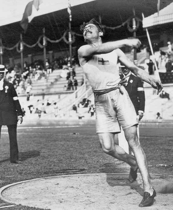 Emil Magnusson during the two handed discus throw competition at the 1912 Summer Olympics